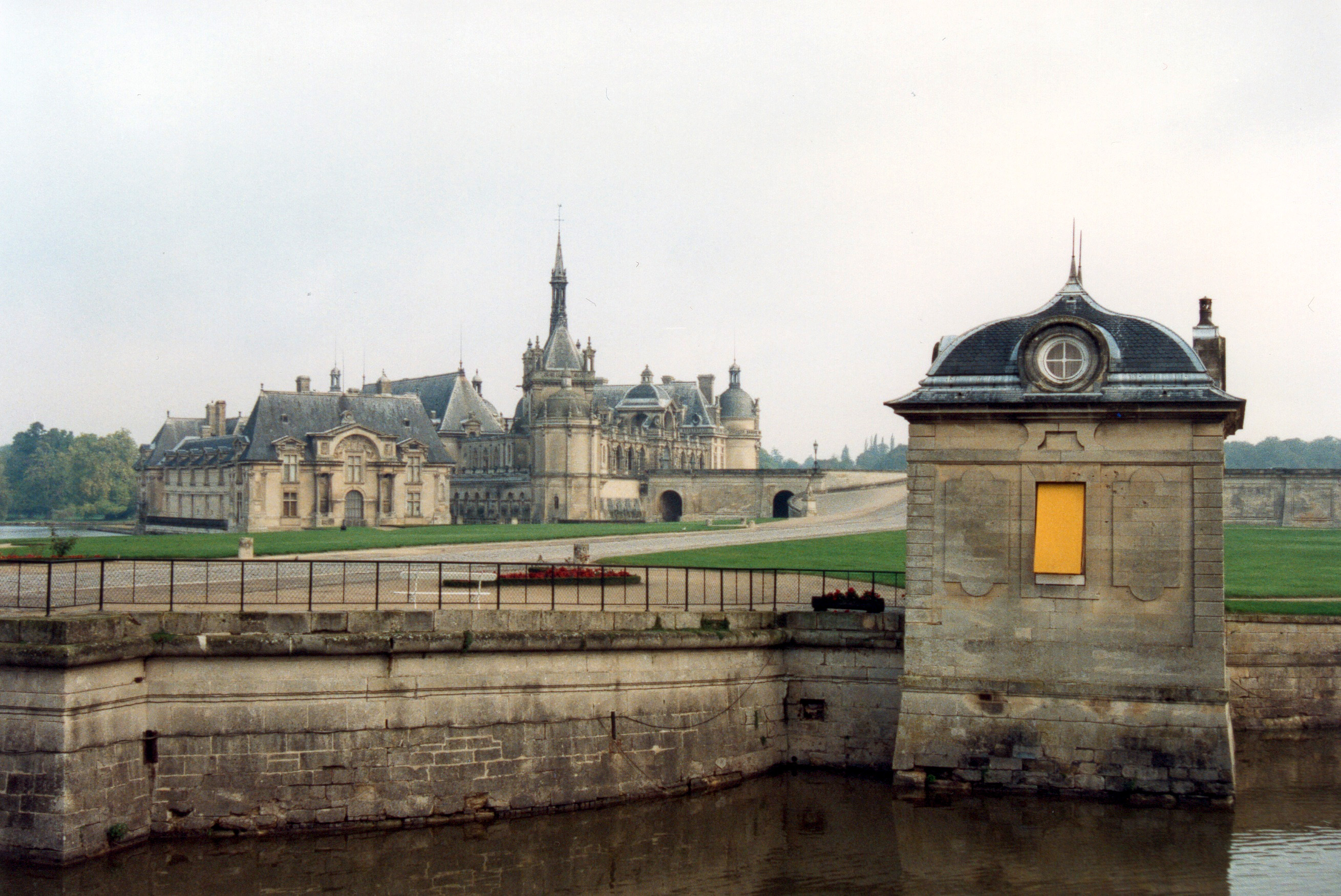 France : Castle of Chantilly (Oise)